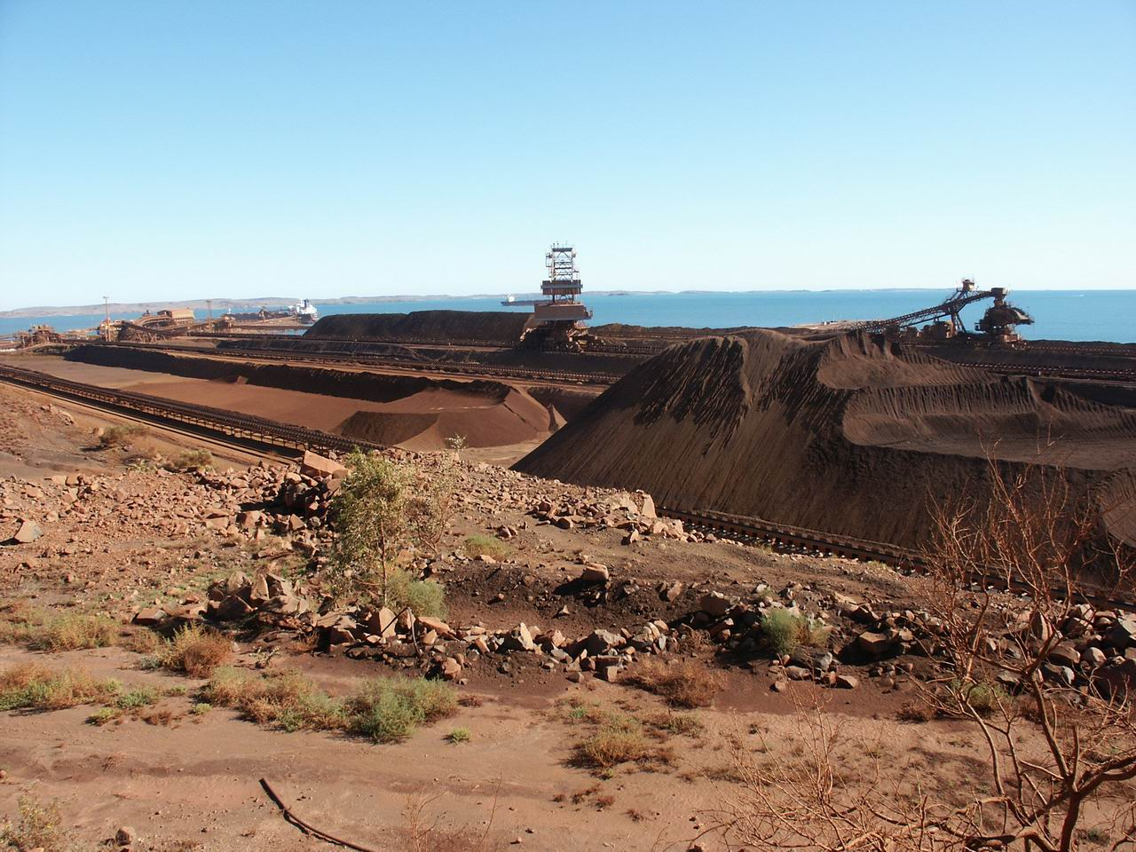 Dampier, Western Australia Iron Ore stockyard.